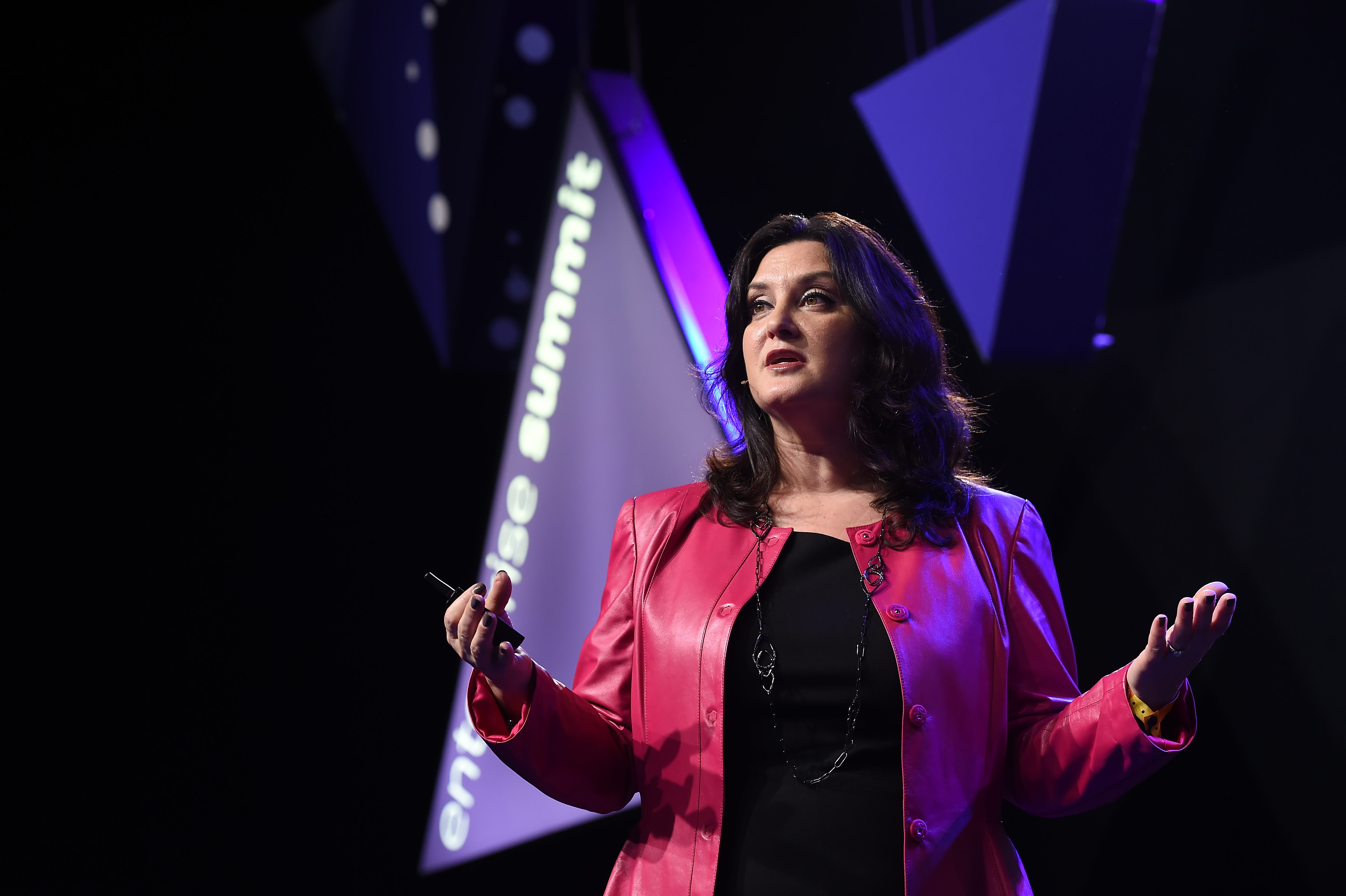 In five years, Web Summit has grown from 400 attendees to over 42,000 from more than 134 countries. It’s been called “the best technology conference on the planet”. But we just think it’s different. And that difference works for our attendees, ranging from Fortune 500 companies to the world’s most exciting startups.